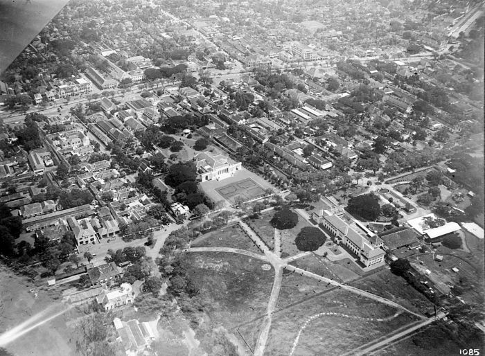 Air photo of the palace of the Governor-General on 'Koningsplein', Batavia